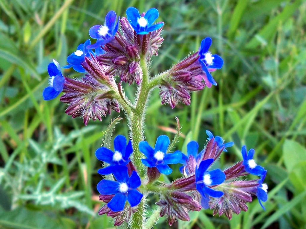 Garden anchusa or Italian bugloss (Anchusa azurea).